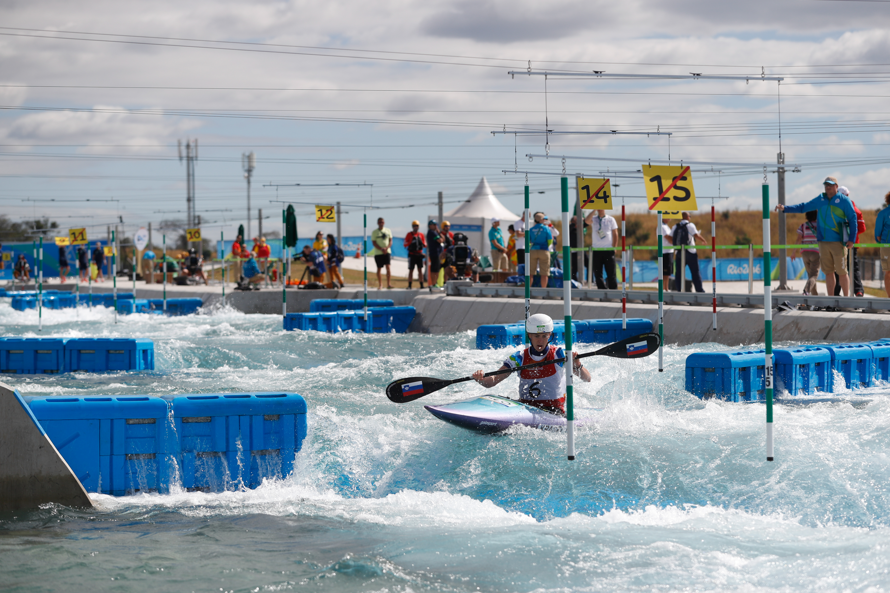 Rio de Janeiro - Eslovena Ursa Krageu disputa canoagem slalom categoria K1 nos Jogos Olímpicos Rio 2016 , no X Park em Deodoro. (Fernando Frazão/Agência Brasil)